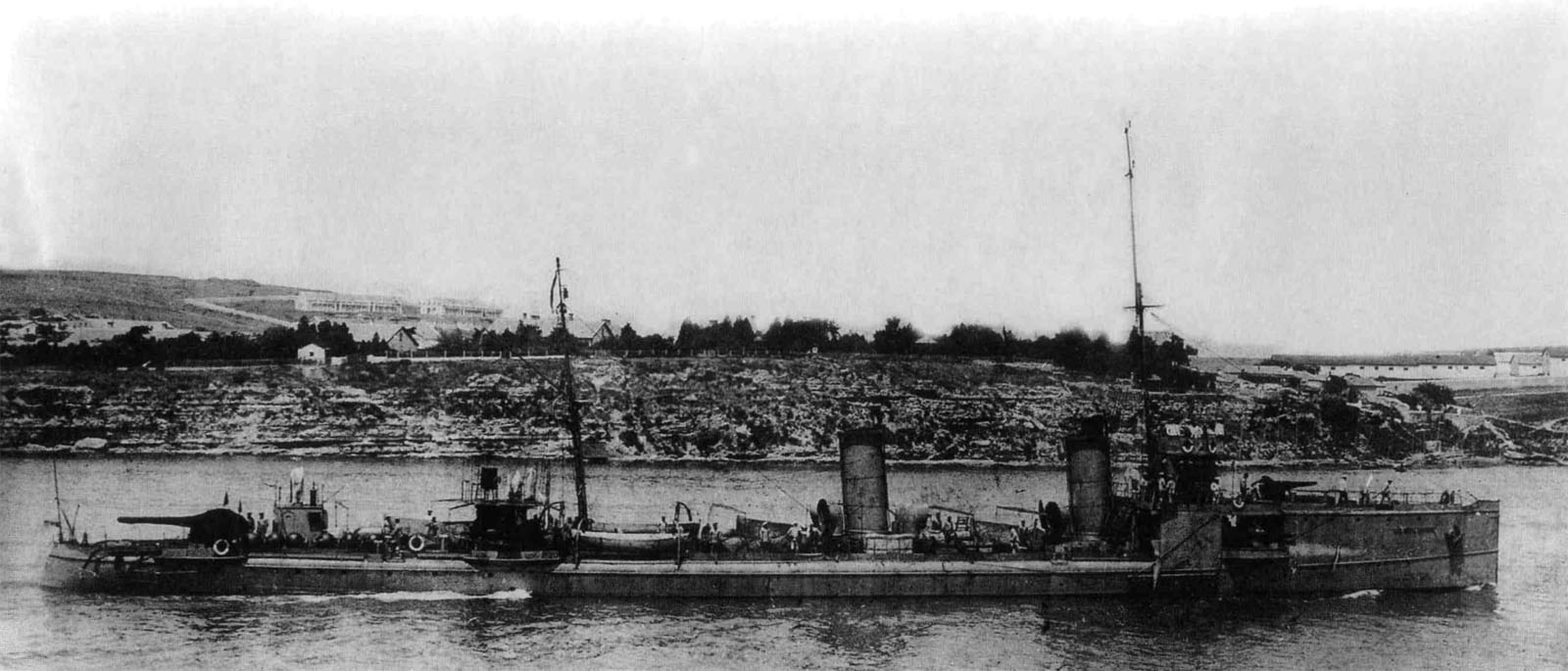 Imperial Russian destroyer Leytenant Shestakov.